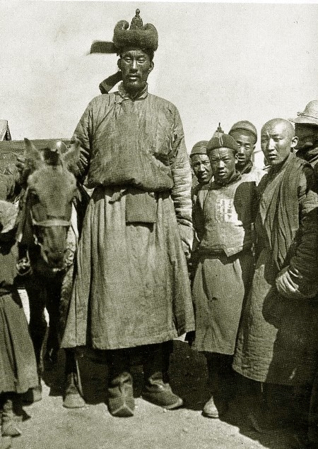 Öndör Gongor, a very tall man in Mongolia in the early 20th century.